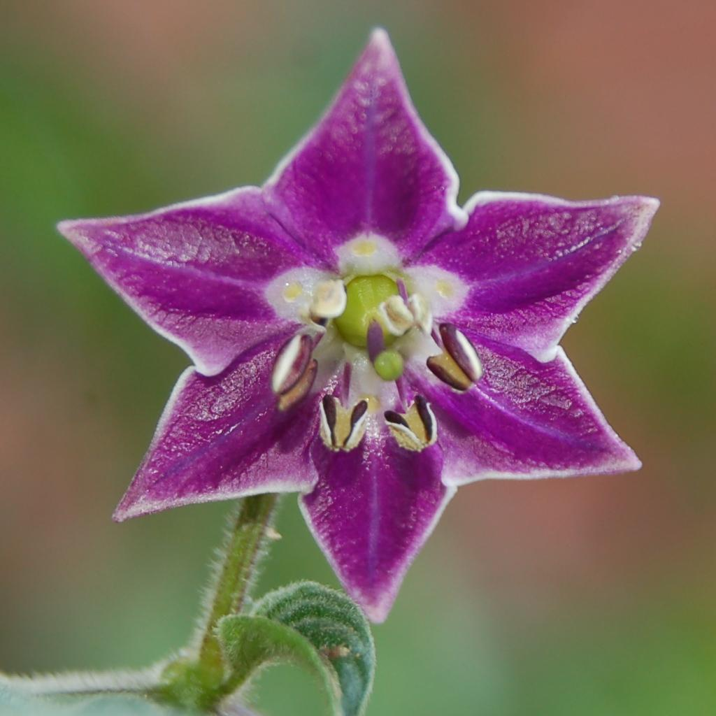 This is a flower of a CAP 217 chili pepper plant. It belongs to the Capsicum pubescens species, which is commonly known as Rocoto. The author of this picture is Luciano Roth Coelho (ie. myself) and I'm publishing it under the Creative Commons ShareAlike 2.5 license.